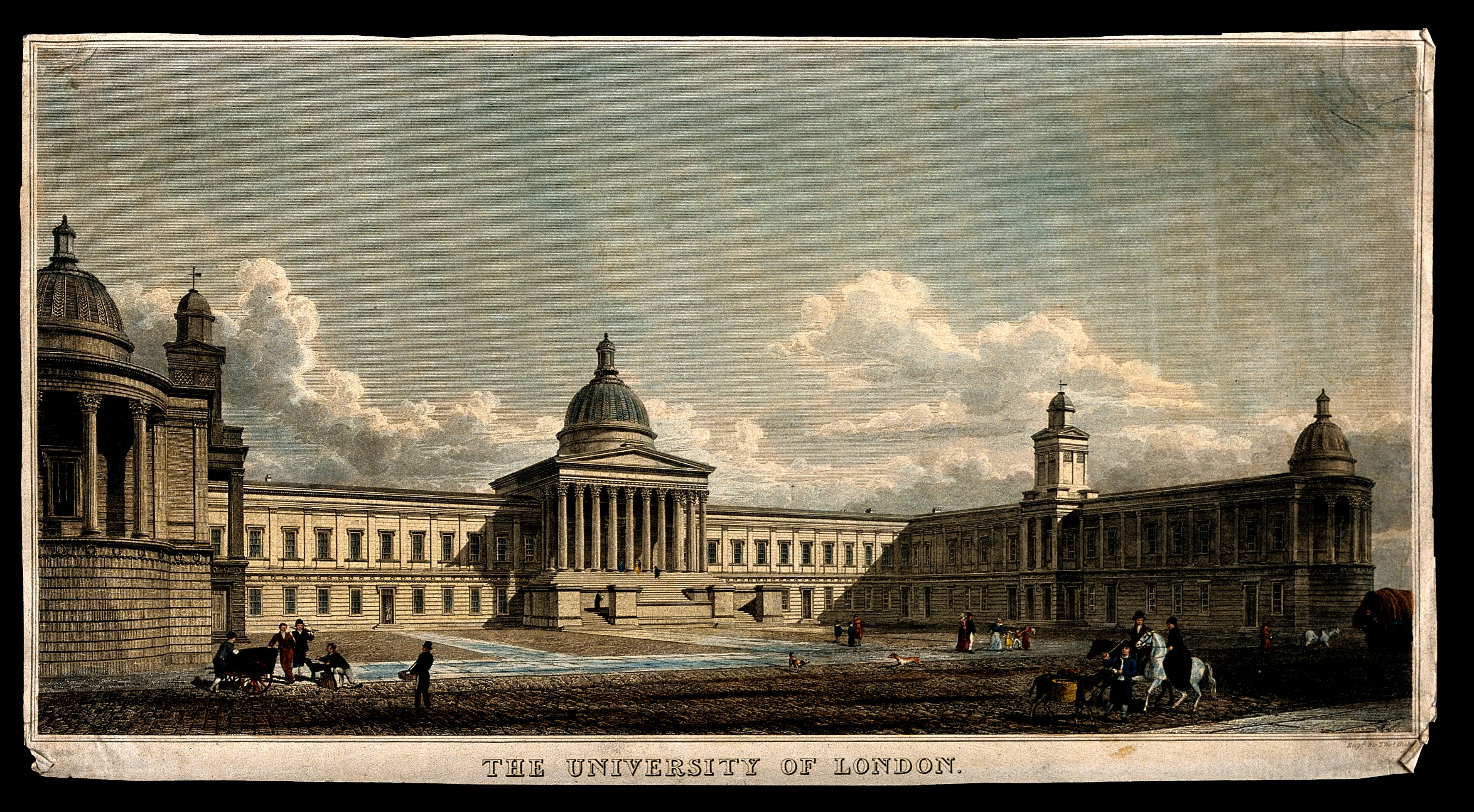 University College, London: the main building. Coloured engraving by T. Higham after W. Wilkins. Iconographic Collections Keywords: University College (London); Thomas Higham; William Wilkins